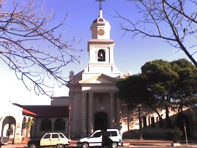 Catedral Nuestra Señora del Rosario (Our Lady of the Rosary Cathedral), seat of the diocese of Merlo-Moreno, Moreno City, Buenos Aires Province, Argentina.